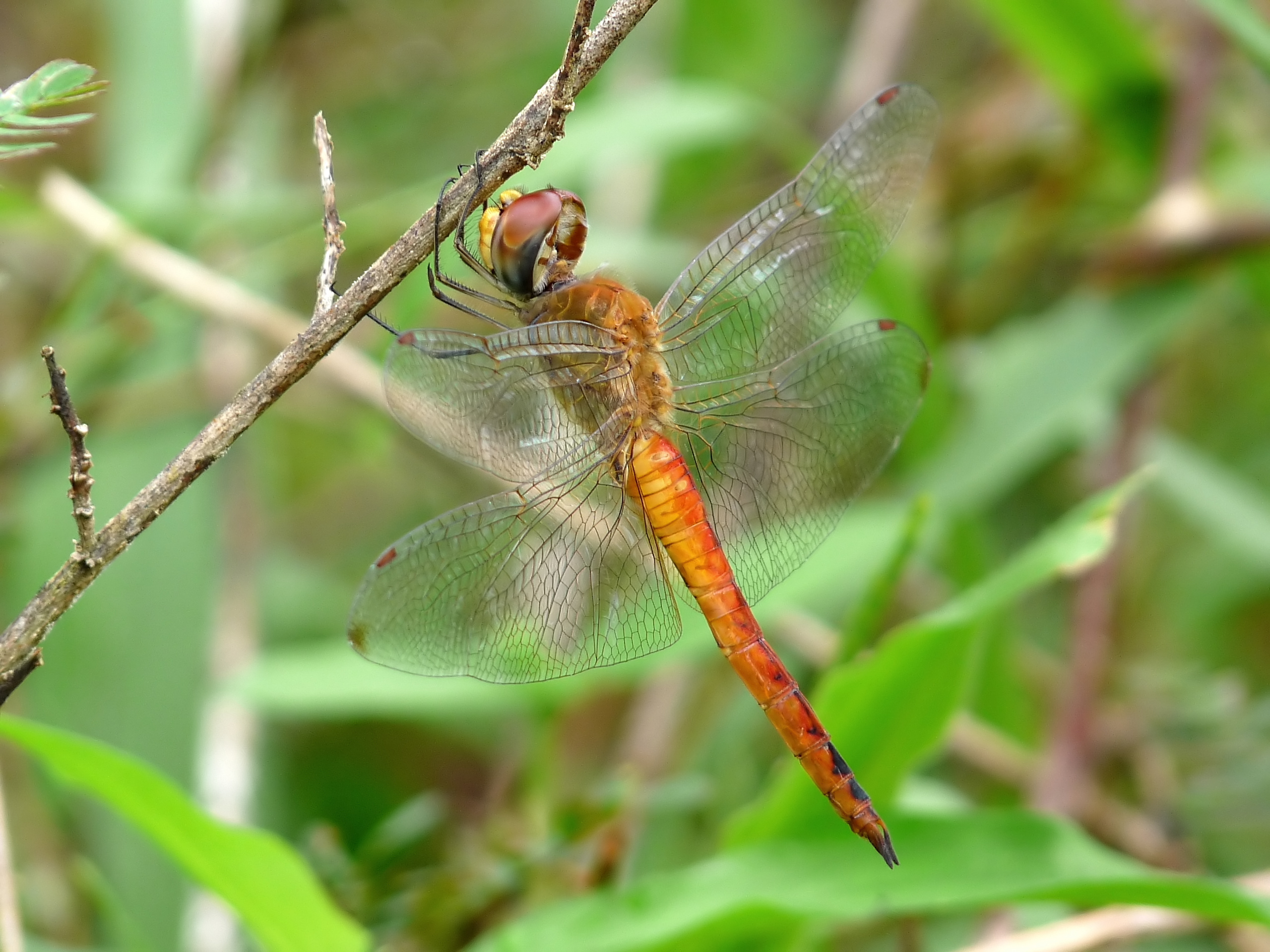 Pantala flavescens, the Globe Skimmer or Wandering Glider, is a wide-ranging dragonfly of the family Libellulidae. This species and Pantala hymenaea, the "Spot-winged Glider", are the only members of the genus Pantala from the subfamily Pantalinae. It was first described by Fabricius in 1798. It is considered to be the most widespread dragonfly on the planet. The male is a medium sized dragonfly and has a light golden brown thorax and the abdomen is deep yellow at the base and more of a burnt orange dorsally. There is a broken middorsal line which becomes more prominent at S7-9. The caudal appendages are black. The female is similar to the male, except the thorax is very pale yellow and the abdomen is a deeper yellow. The base of the wings is also yellow and the base of S-1 is white. The most obvious difference between male and female is the wings - the female wings have a brown tinge, whereas the male's wings are clear. Taken at Kadavoor, Kerala, India.